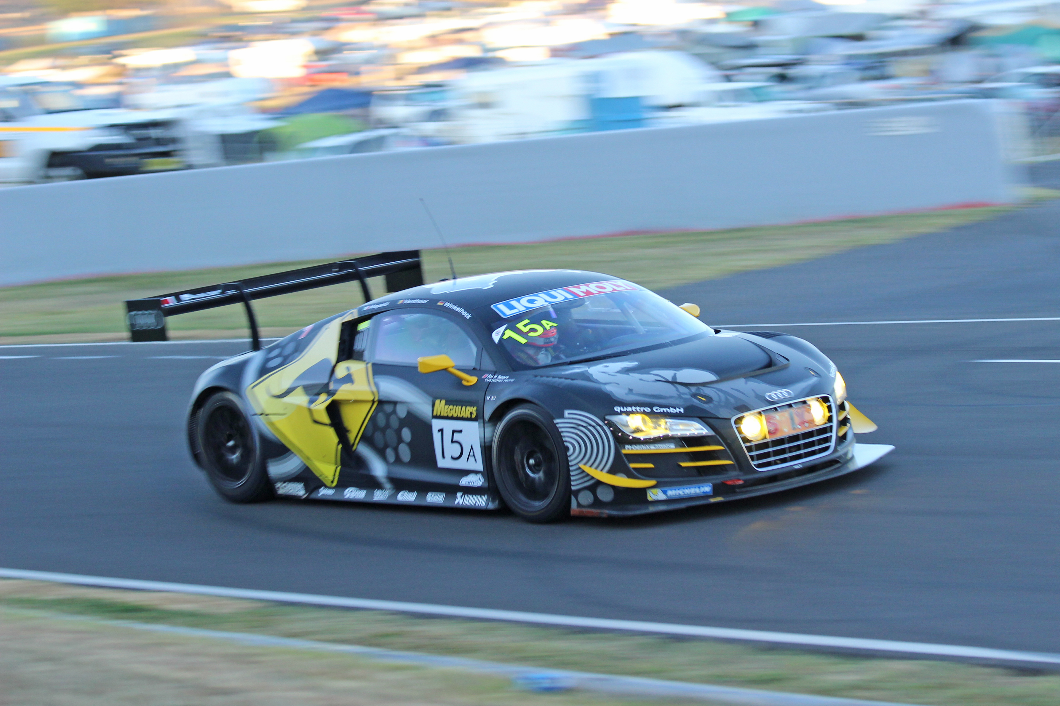 The Class AP-winning Audi R8 of Marco Mapelli, Laurens Vanthoor and Markus Winkelhock at the 2015 Liqui Moly Bathurst 12 Hour.